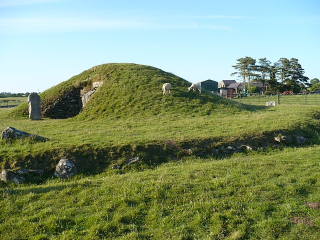 Bryn Celli Ddu Viewed from the south. For a 21st century discovery about this site .